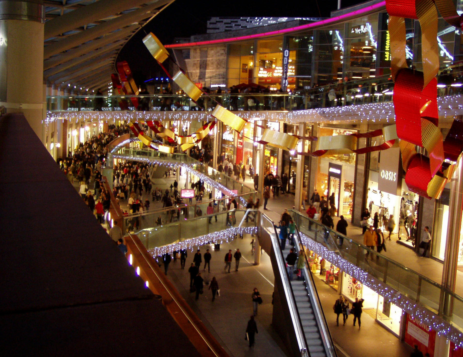 Liverpool One at Night